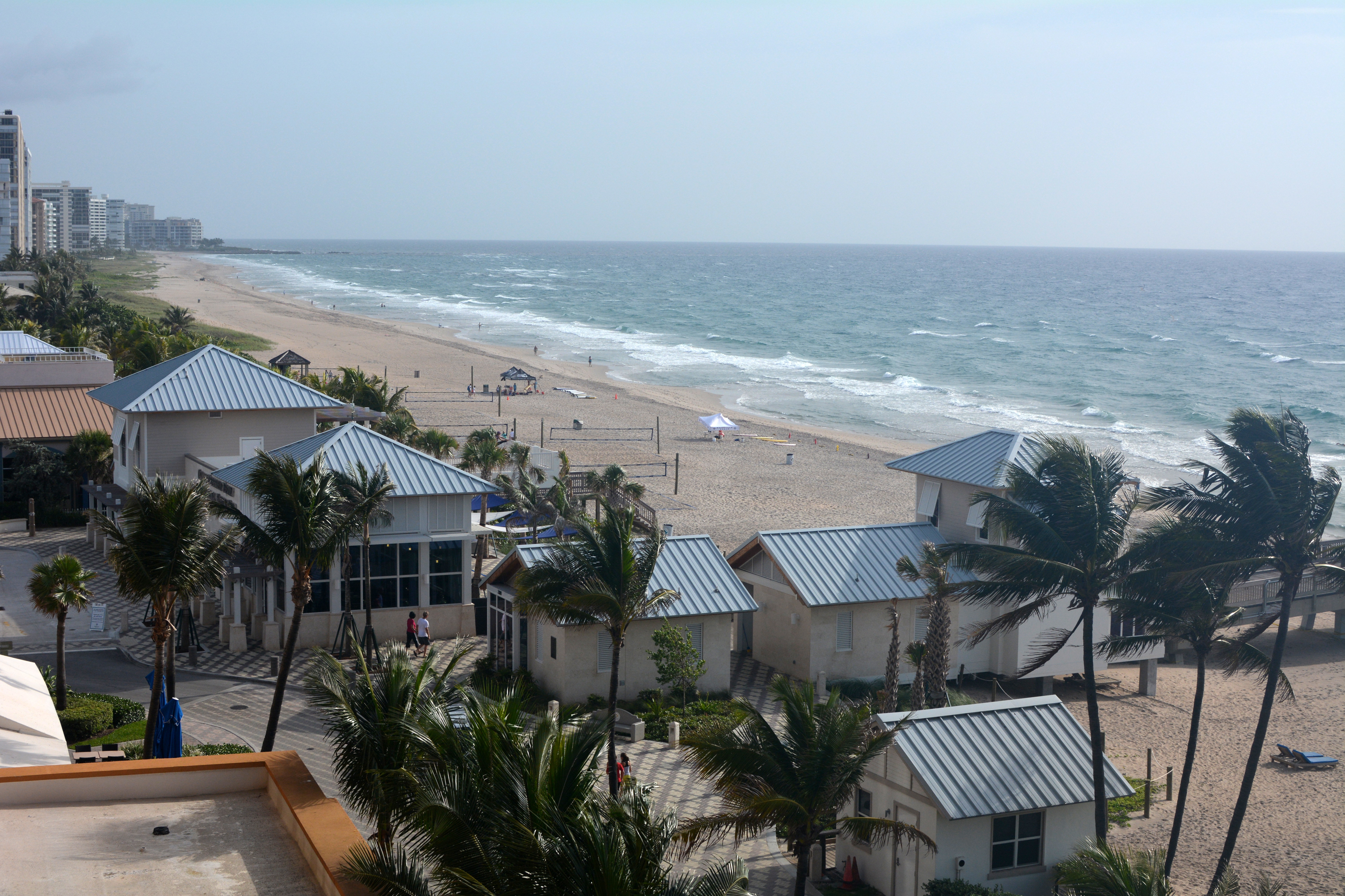 North Deerfield Beach Photo D Ramey Logan